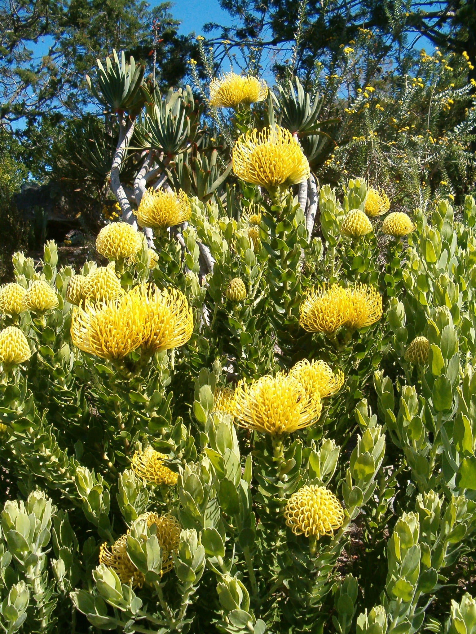 At Kirstenbosch National Botanical Gardens Species Leucospermum cordifolium